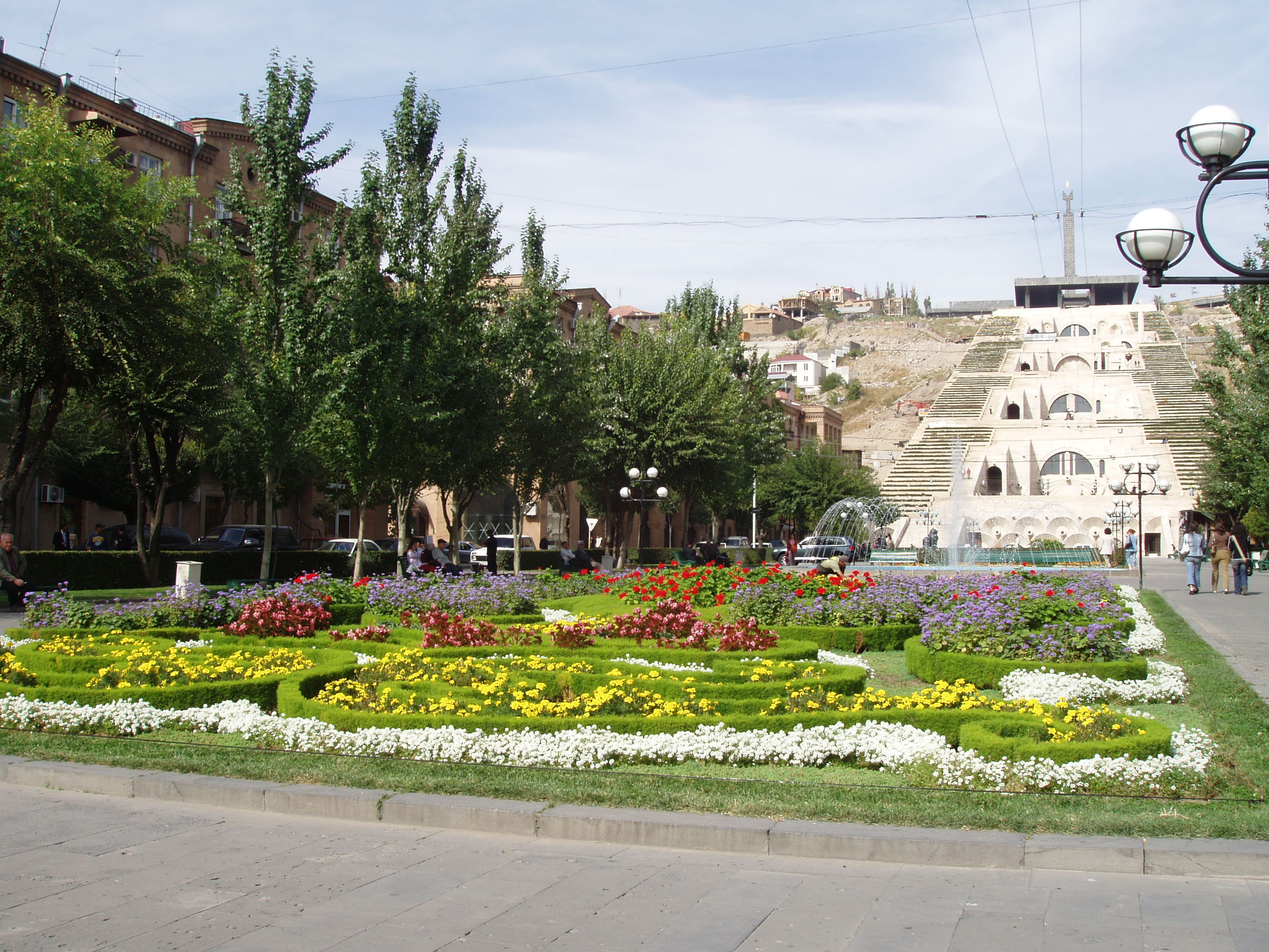 Tamanyan street and the Cascade of Yerevan.